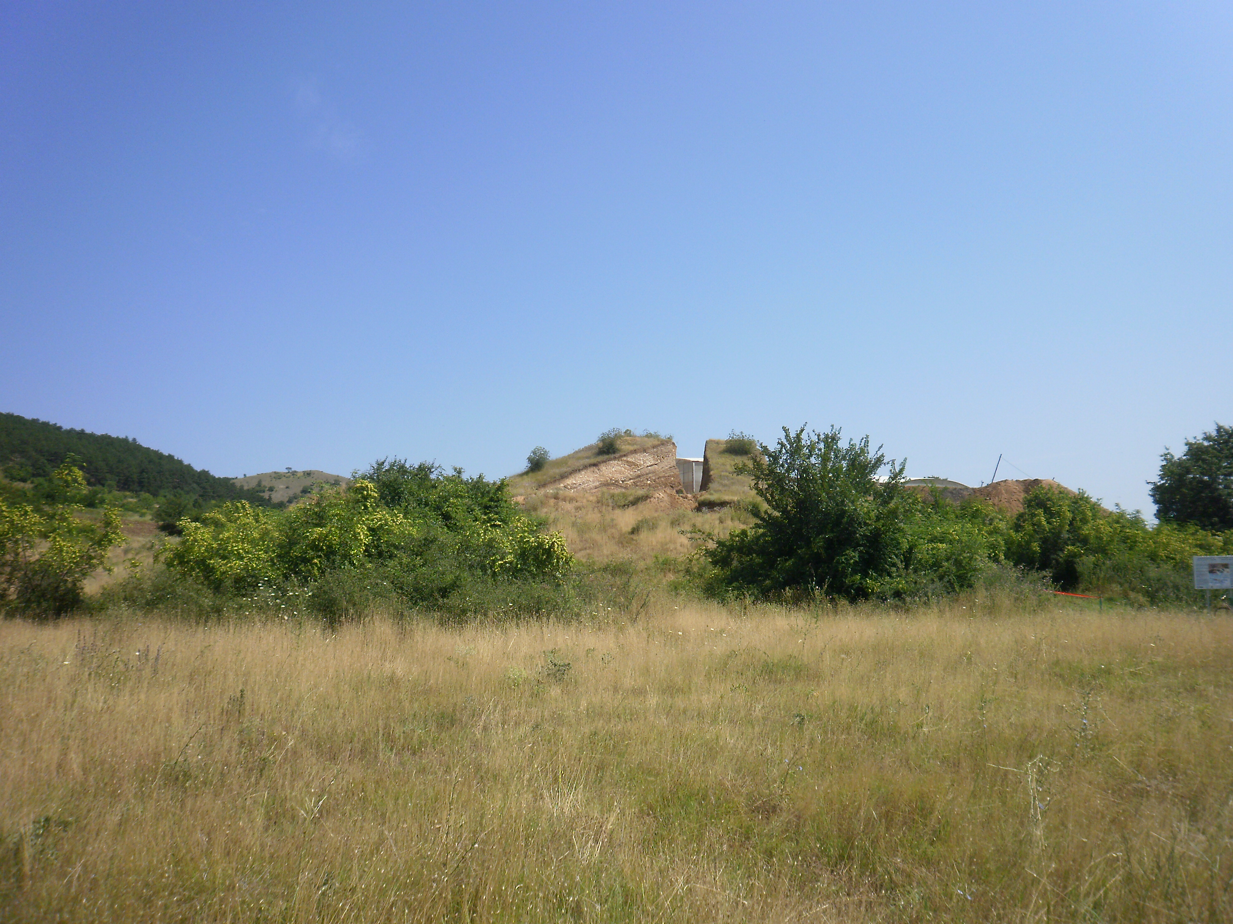 Eastern mound Karanovo, Bulgaria.